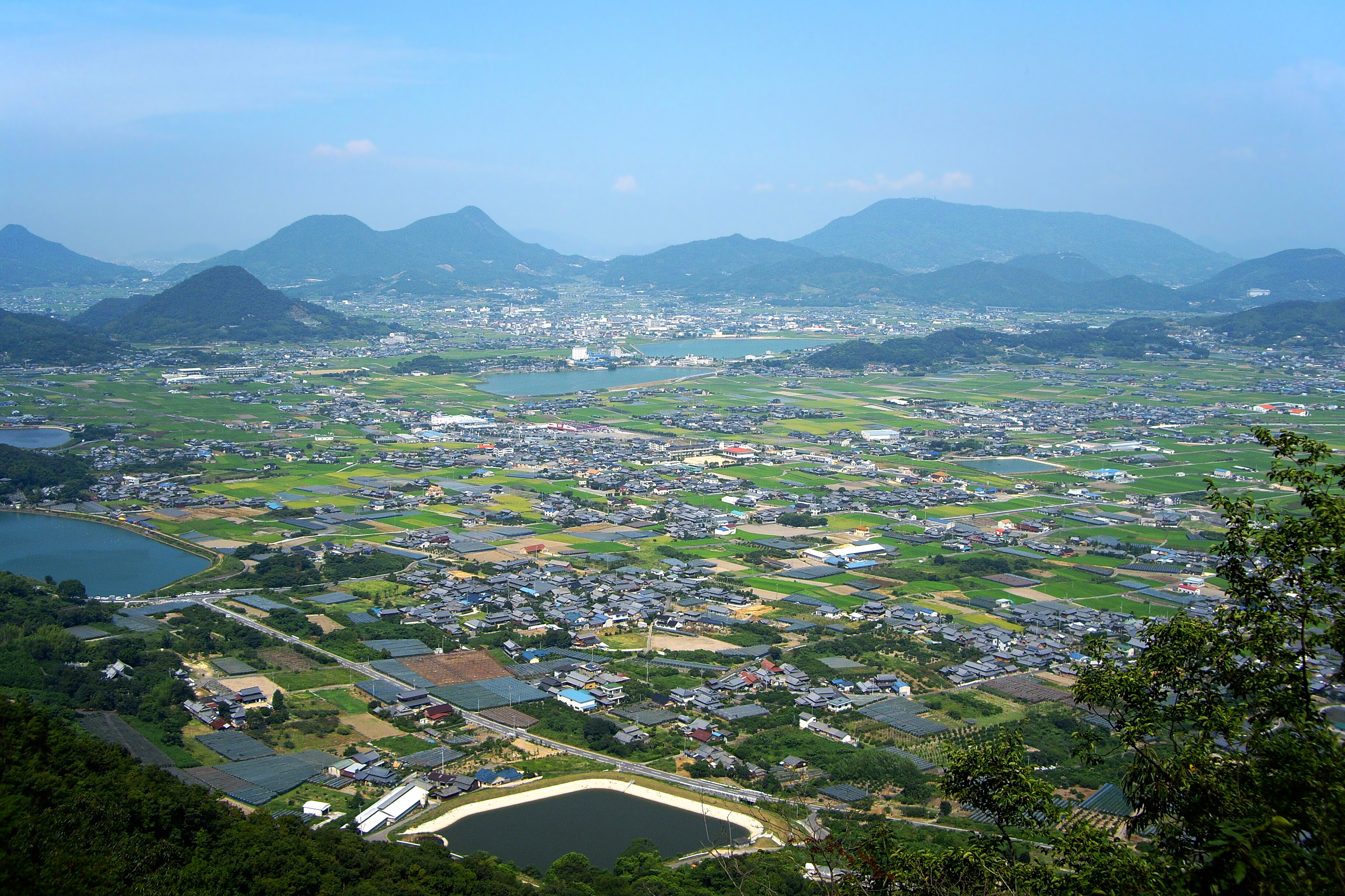 The north in Mitoyo Plain view from Mount Shichiho in Mitoyo City, Kagawa prefecture, Japan.